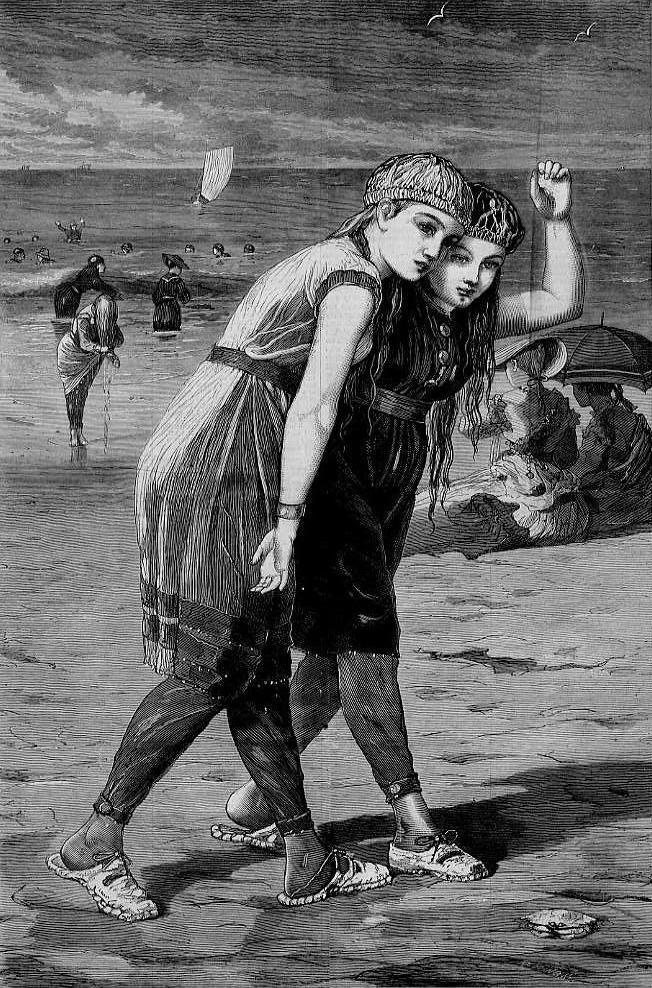 The Bathers